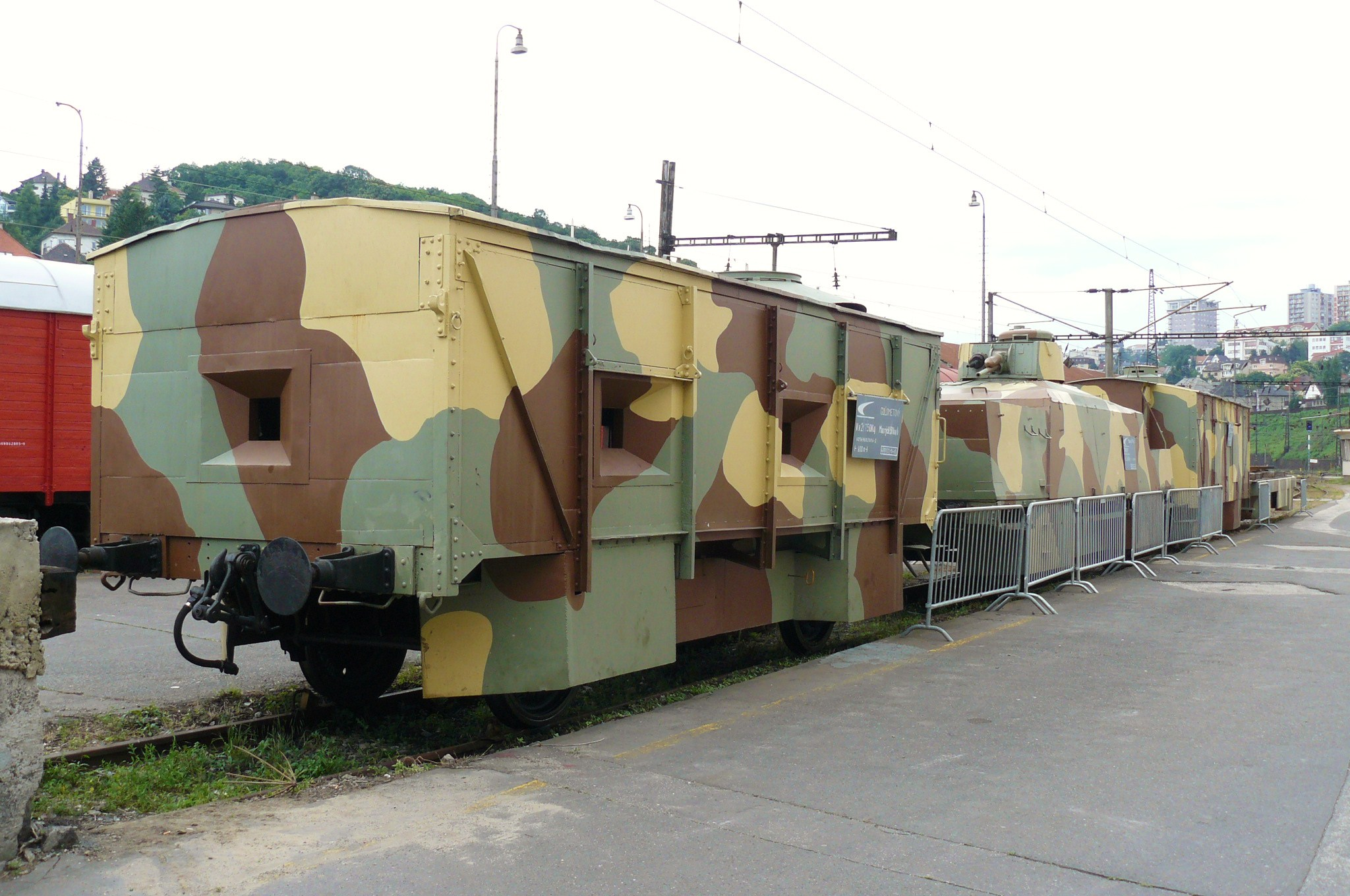 The armored train in Bratislava.